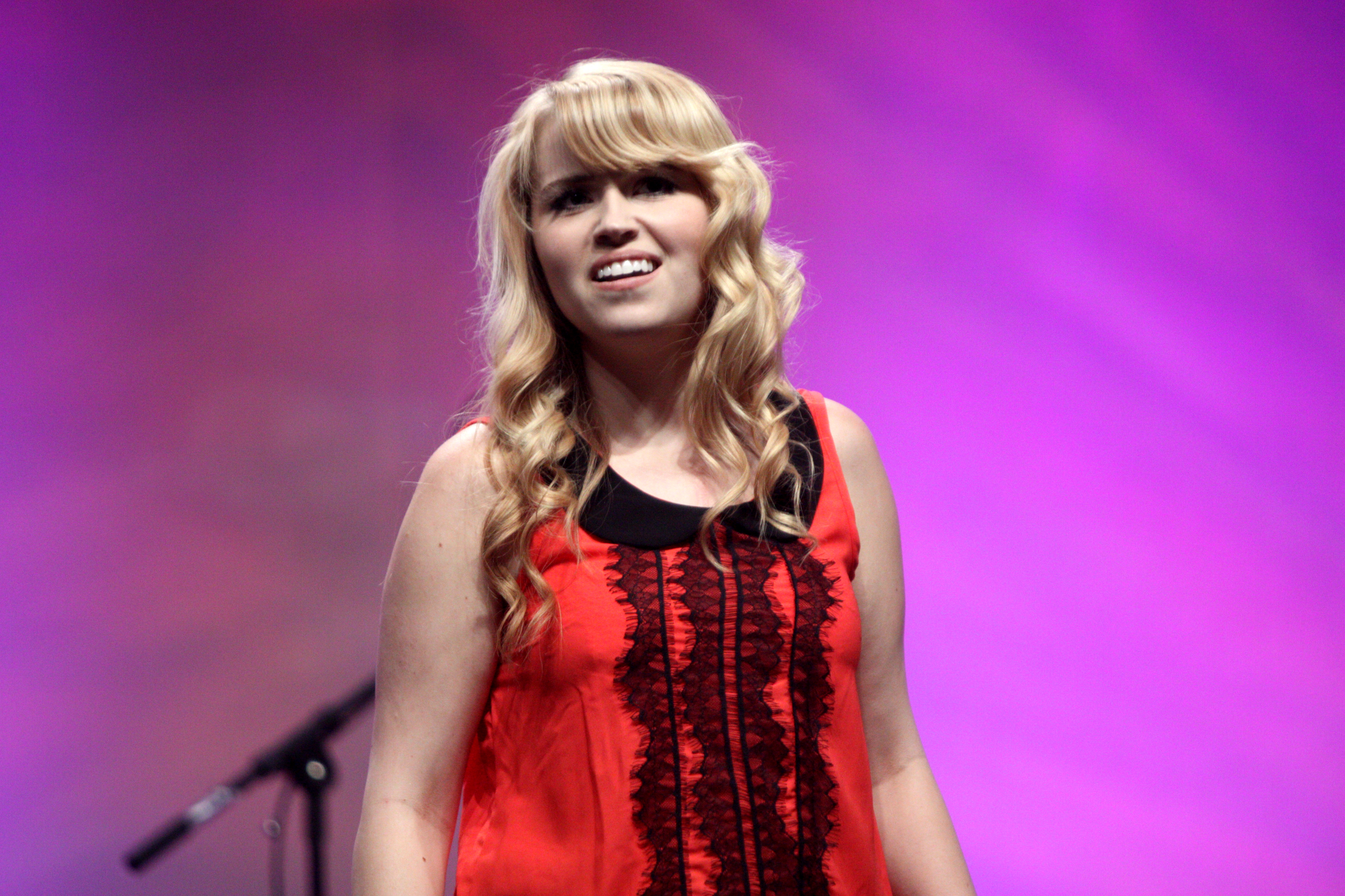 Lee Newton speaking at VidCon 2012 at the Anaheim Convention Center in Anaheim, California.